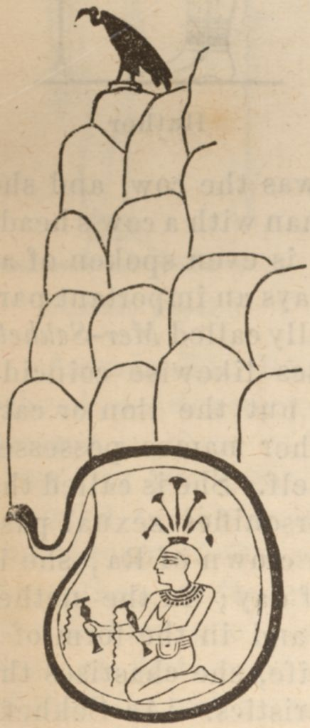 A line drawing of the Egyptian god Hapy (mislabelled as Muth in the source).